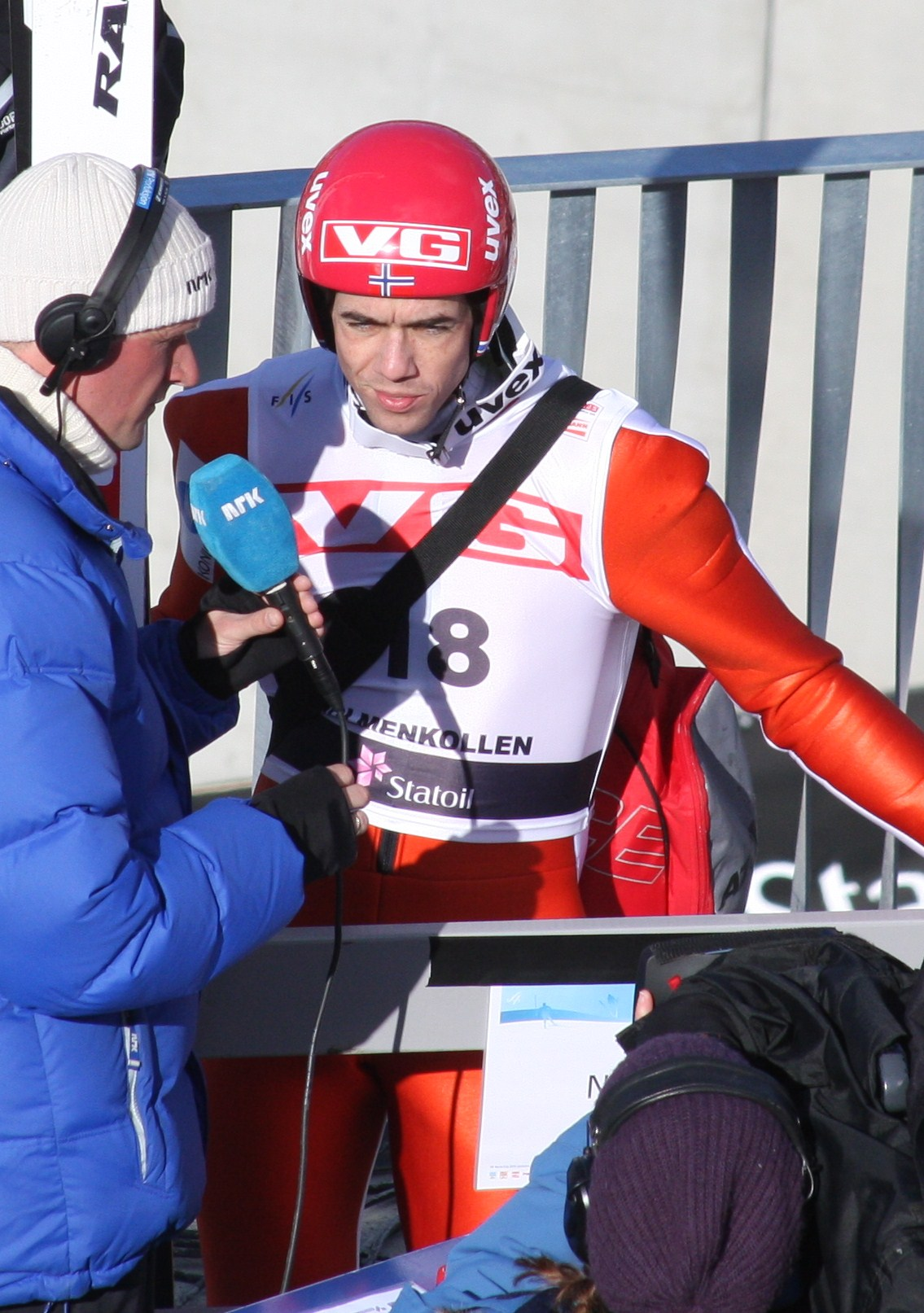 Anders Bardal (NOR) in WC Oslo, Holmenkollen, 14 march 2010